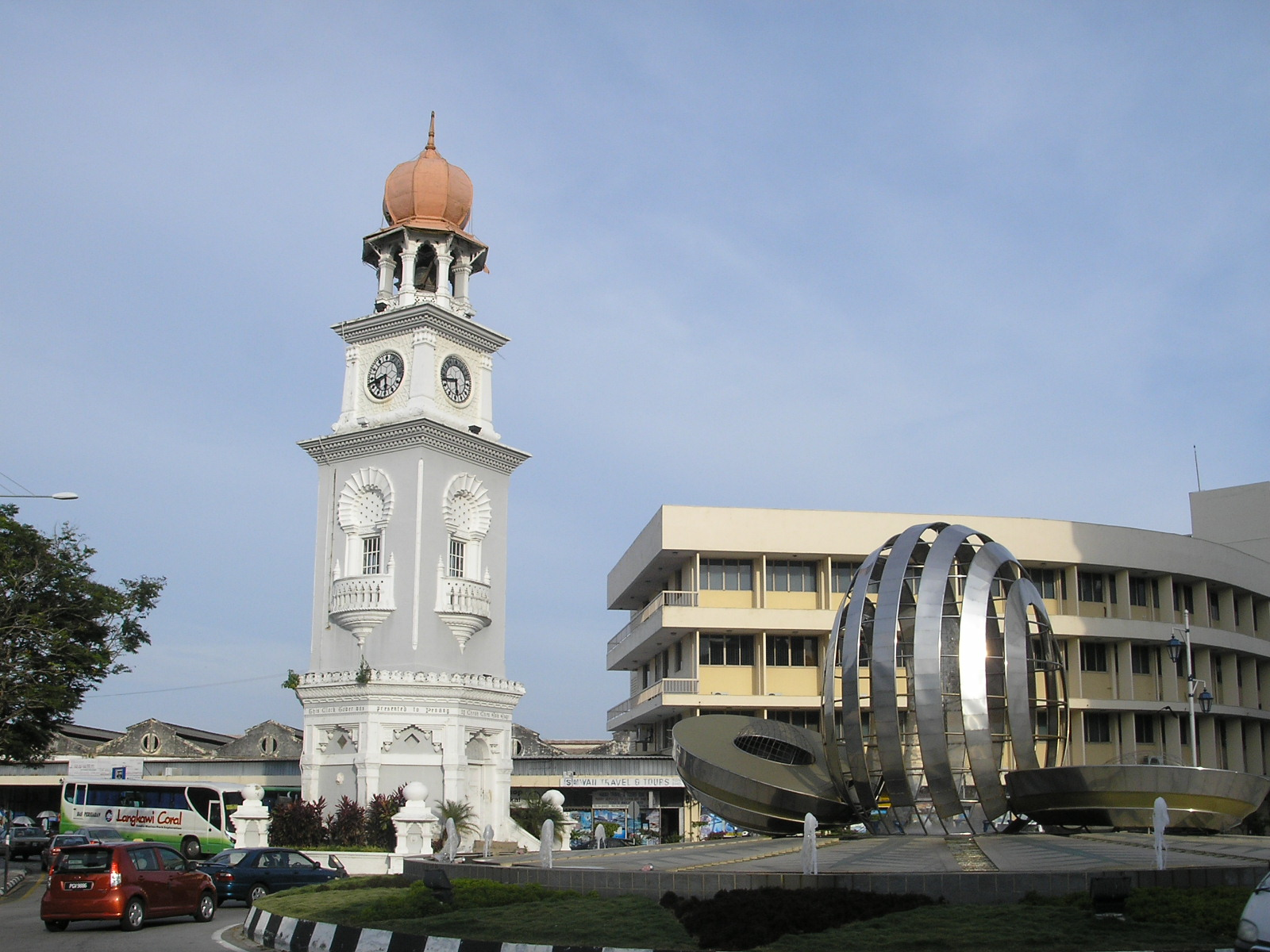 The Queen Victoria Diamond Jubilee Clocktower, in Georgetown in Penang.